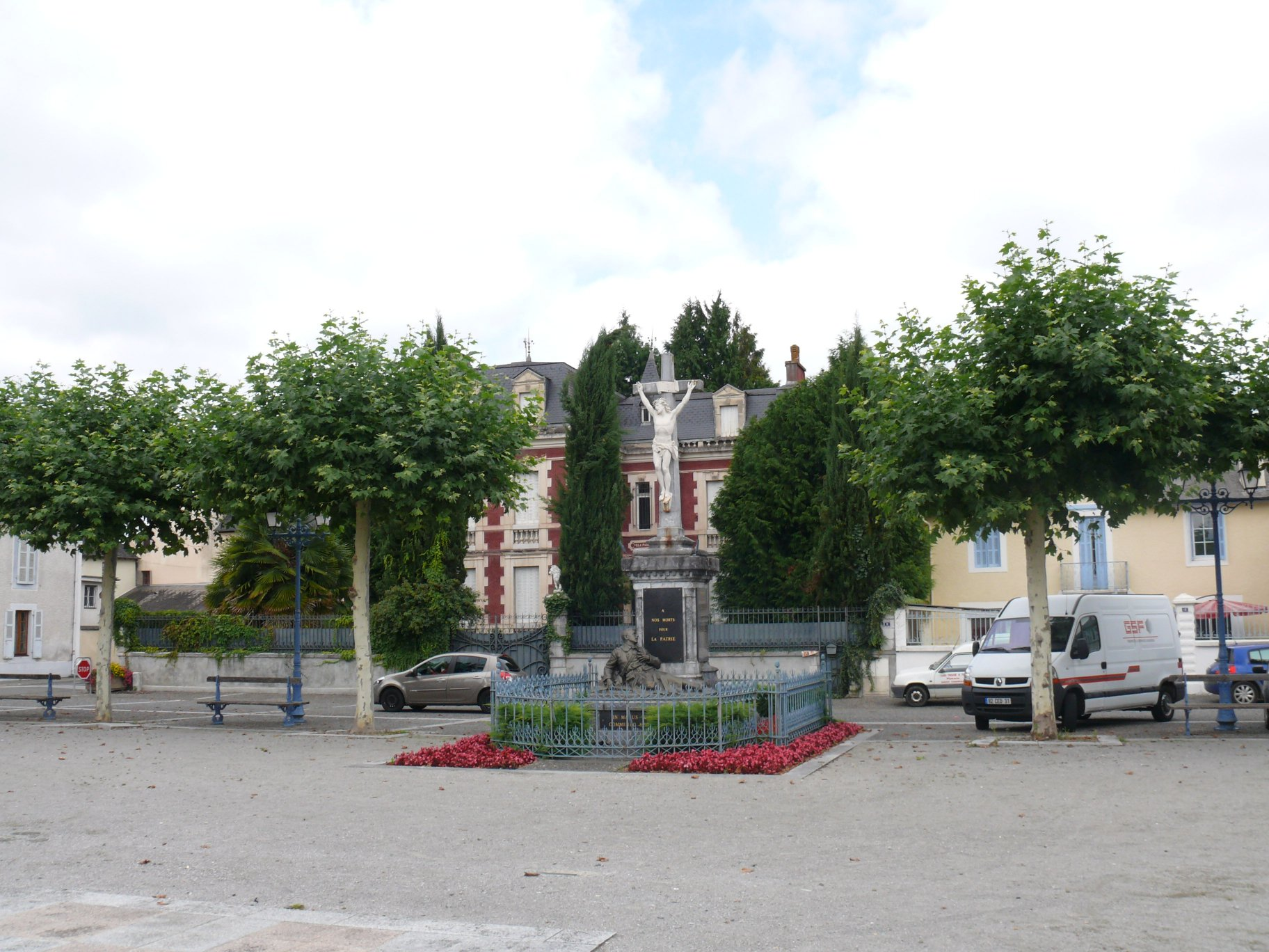 Saint-John's square in Lestelle-Bétharram (Pyrénées-Atlantiques, Aquitaine, France).